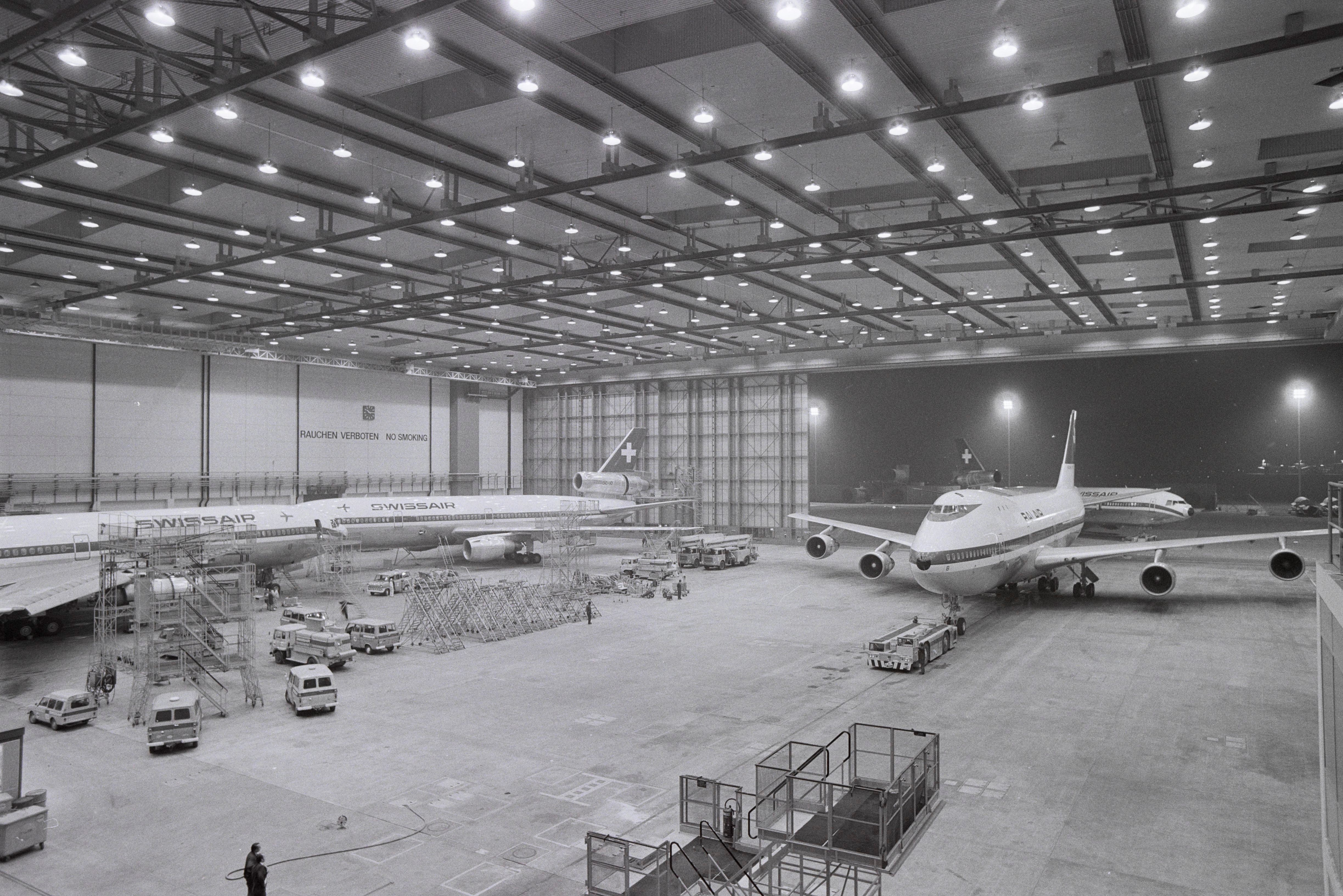 For an excurison of Balair one Swissair B-747 recieved a Balair writing on its left side.